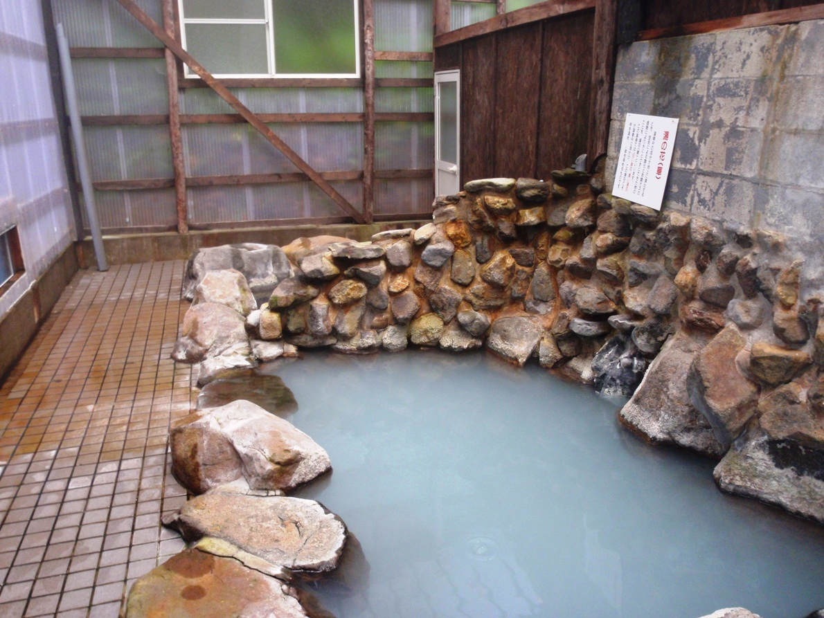 Asahi spa in Iwanai, Hokkaido Japan.